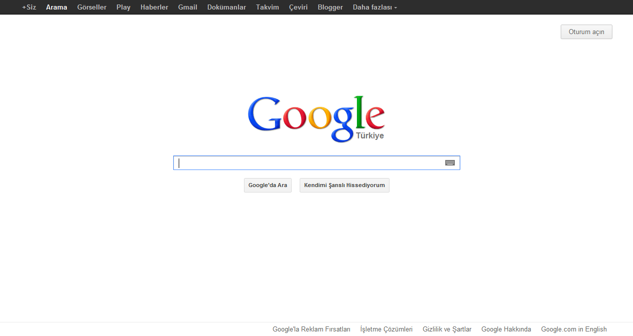 The Google search Turkey homepage, viewed in Google Chrome.